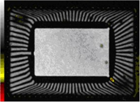 C-Sam generated image